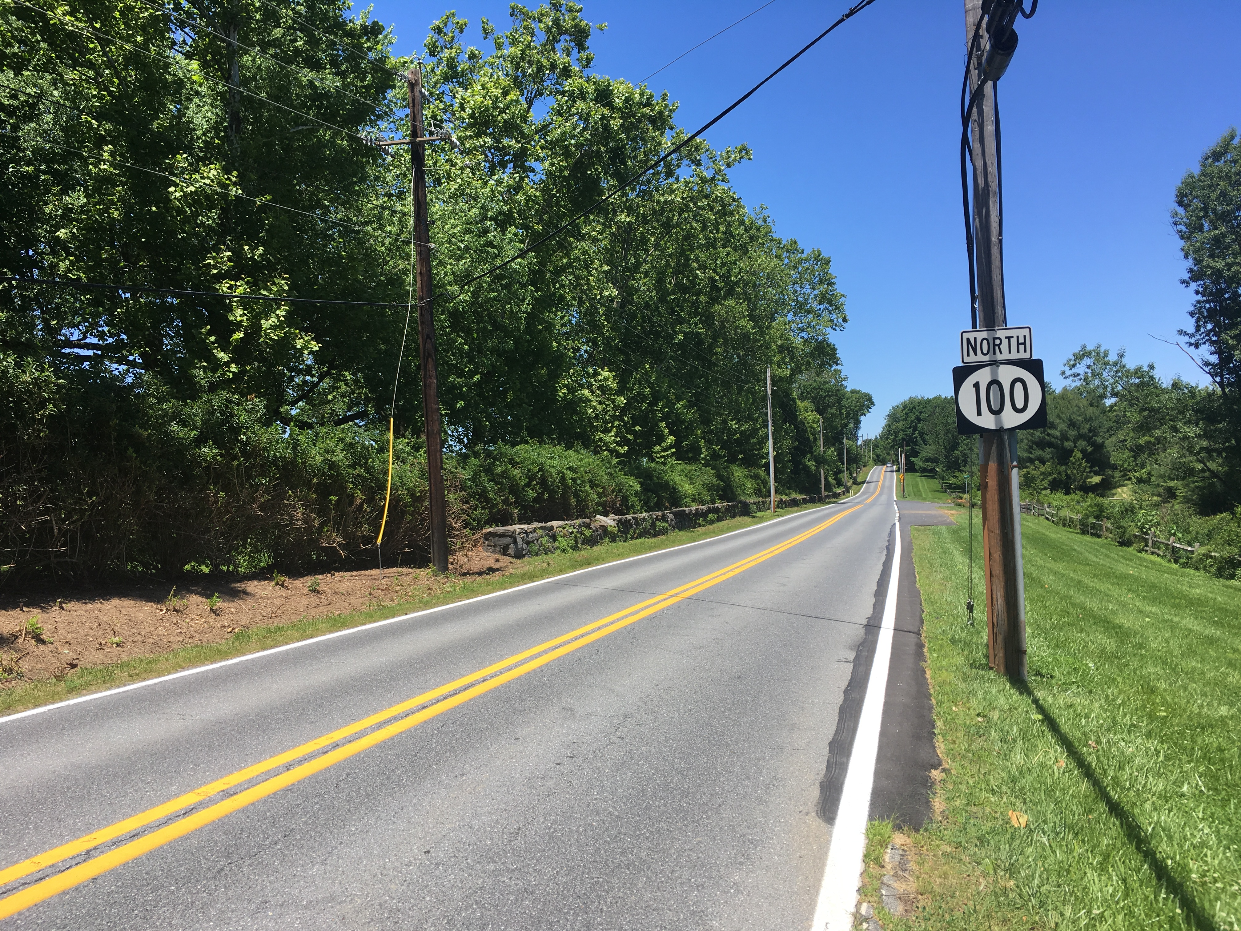 Northbound Delaware Route 100 (Montchanin Road) past the intersection with Kirk Road in Montchanin, Delaware